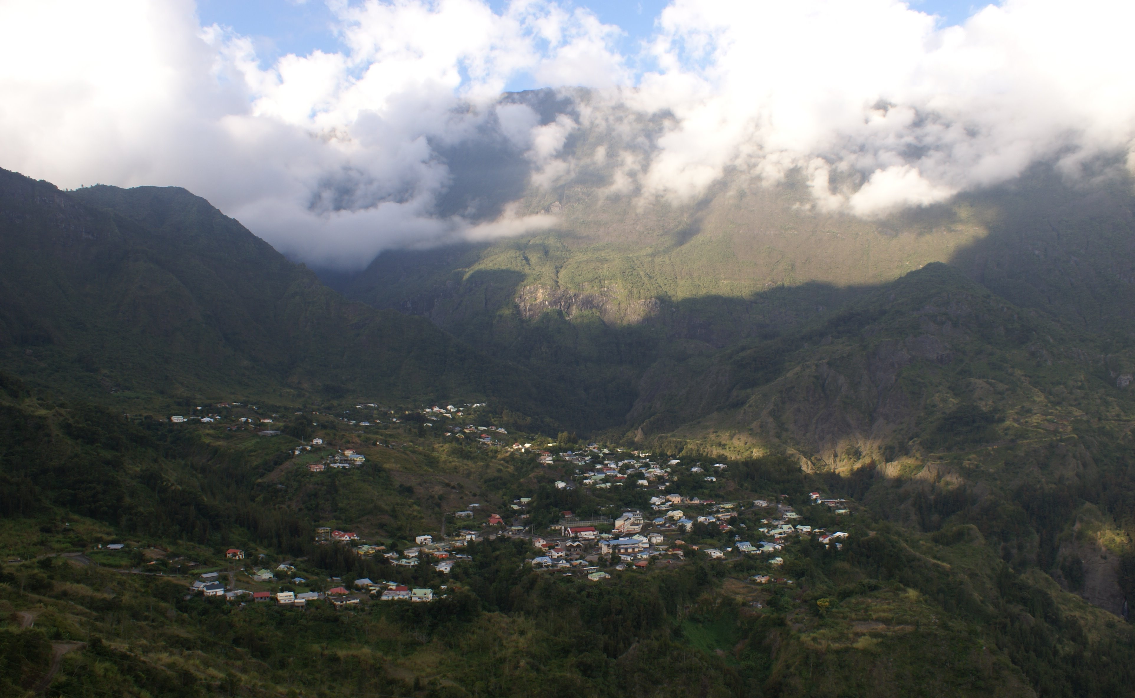 Village of Palmiste Rouge, part of the commune of Cilaos, on Réunion island